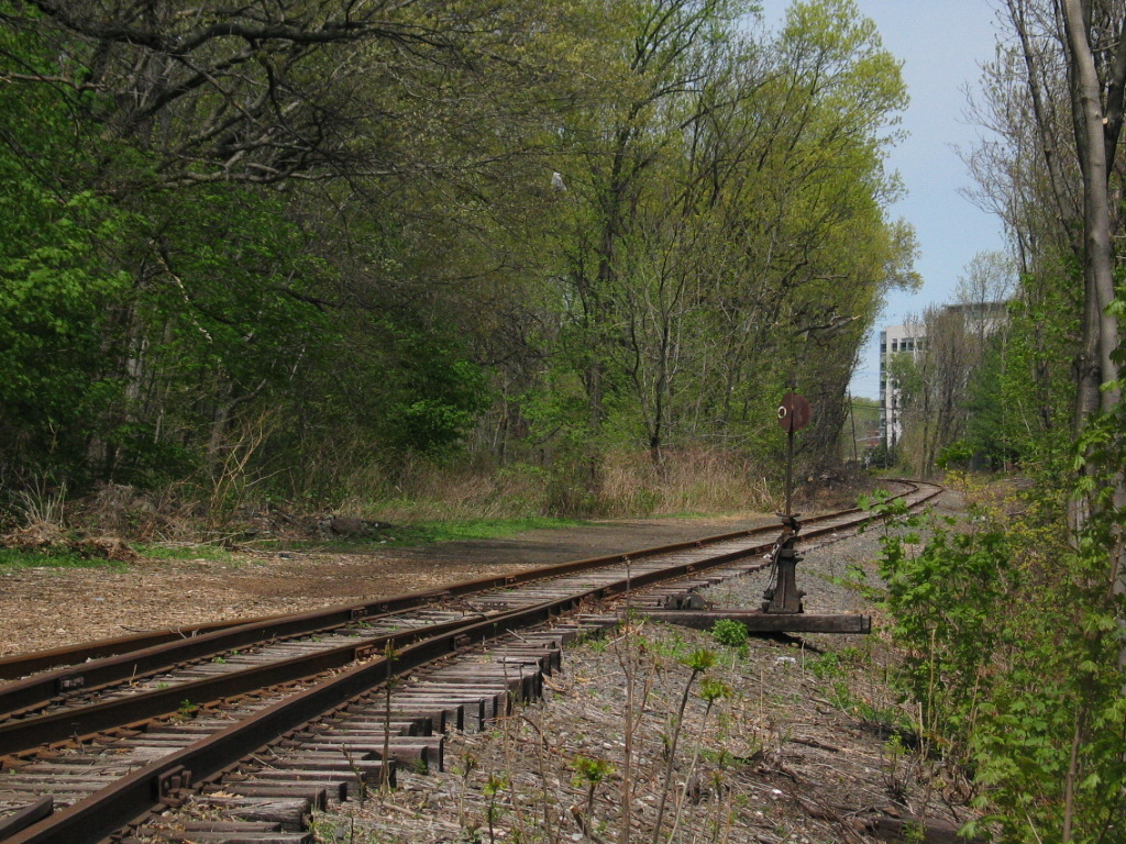 A rarely used freight railroad branch runs through Nutley, NJ